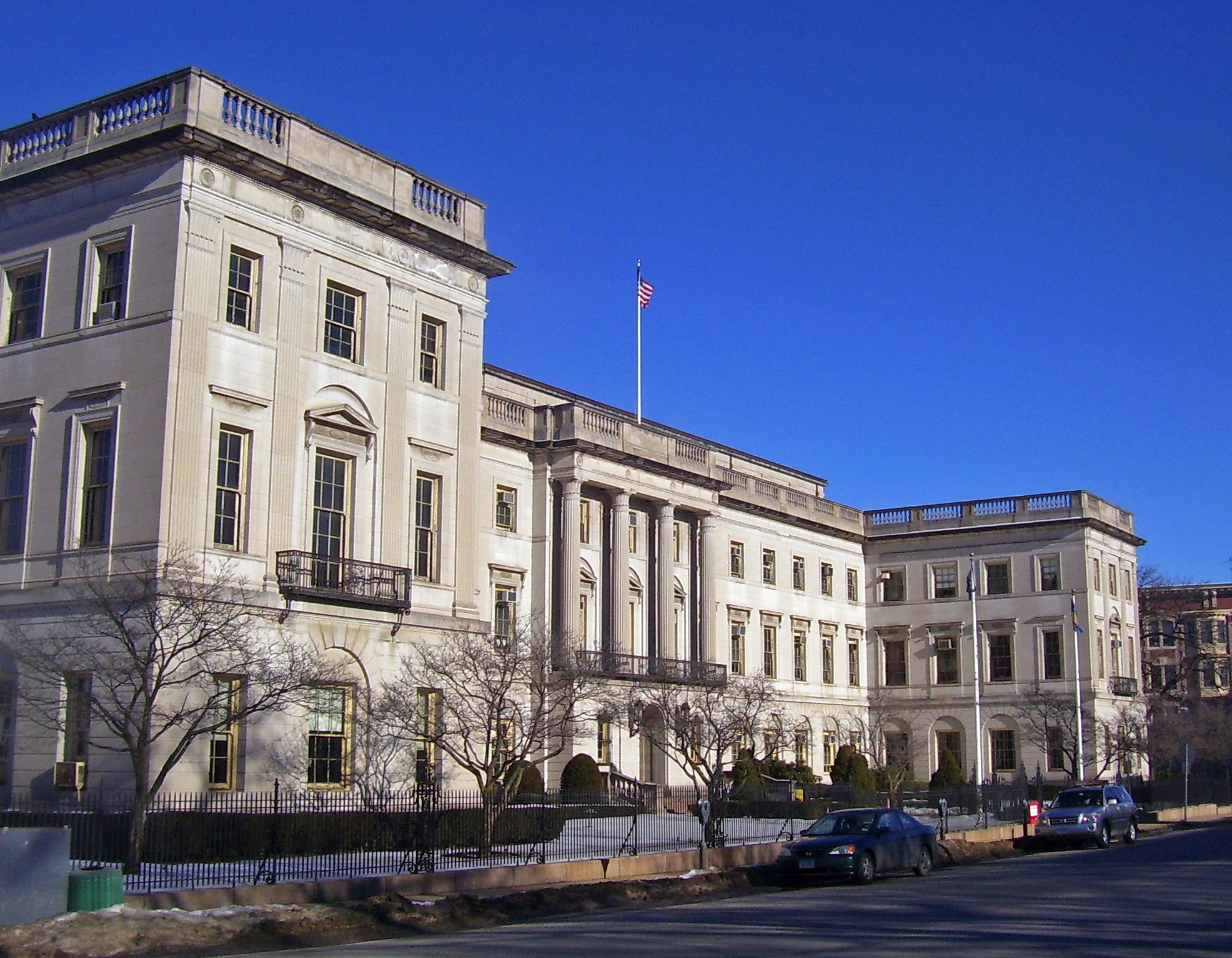 Chase Headquarters Building, part of Waterbury, CT, USA, Municipal Center Complex